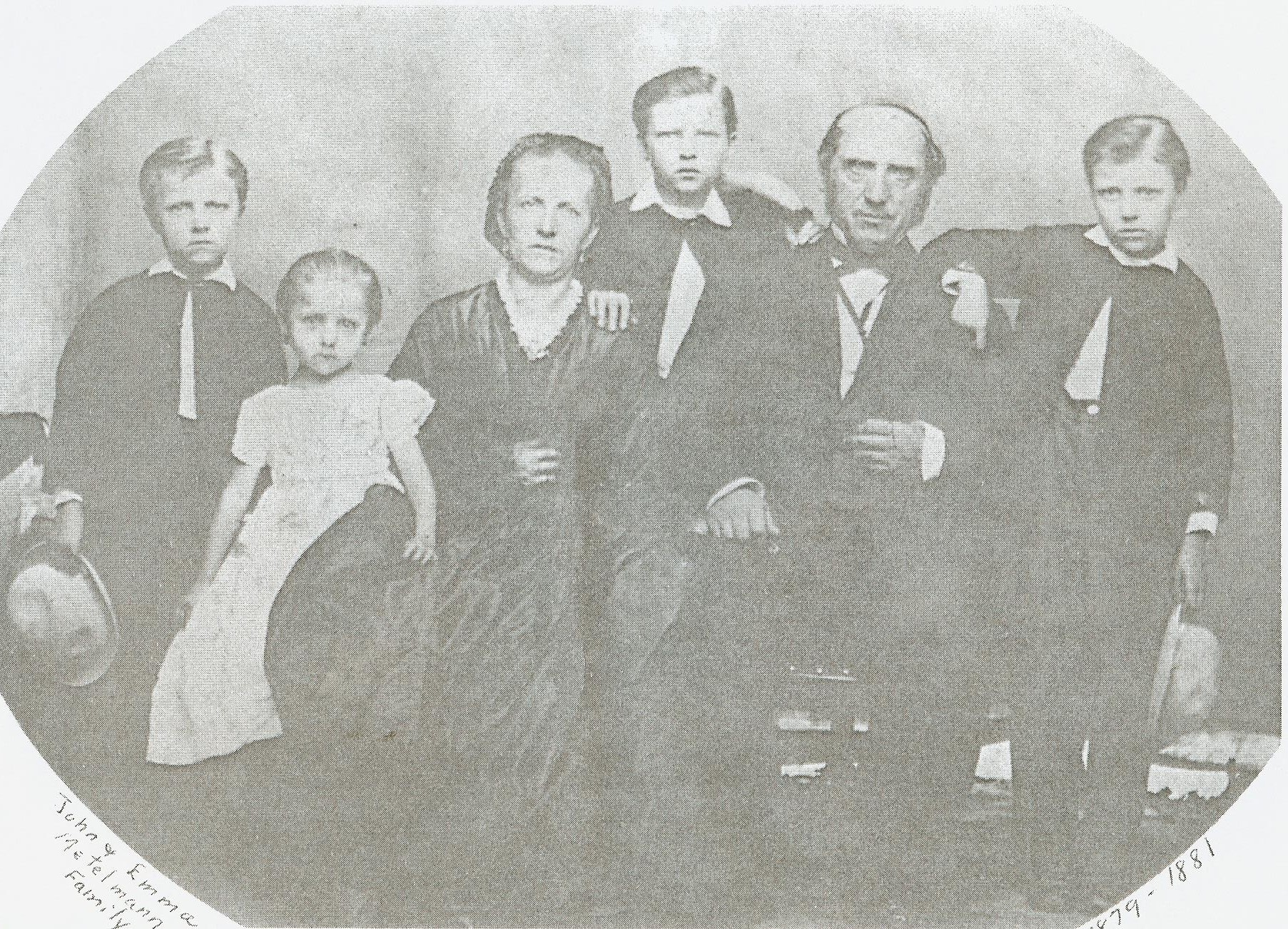 Family portrait photopgraph of the family of Johann Metelmann/Rev. John Metelmann, Lenzburg, Ill.